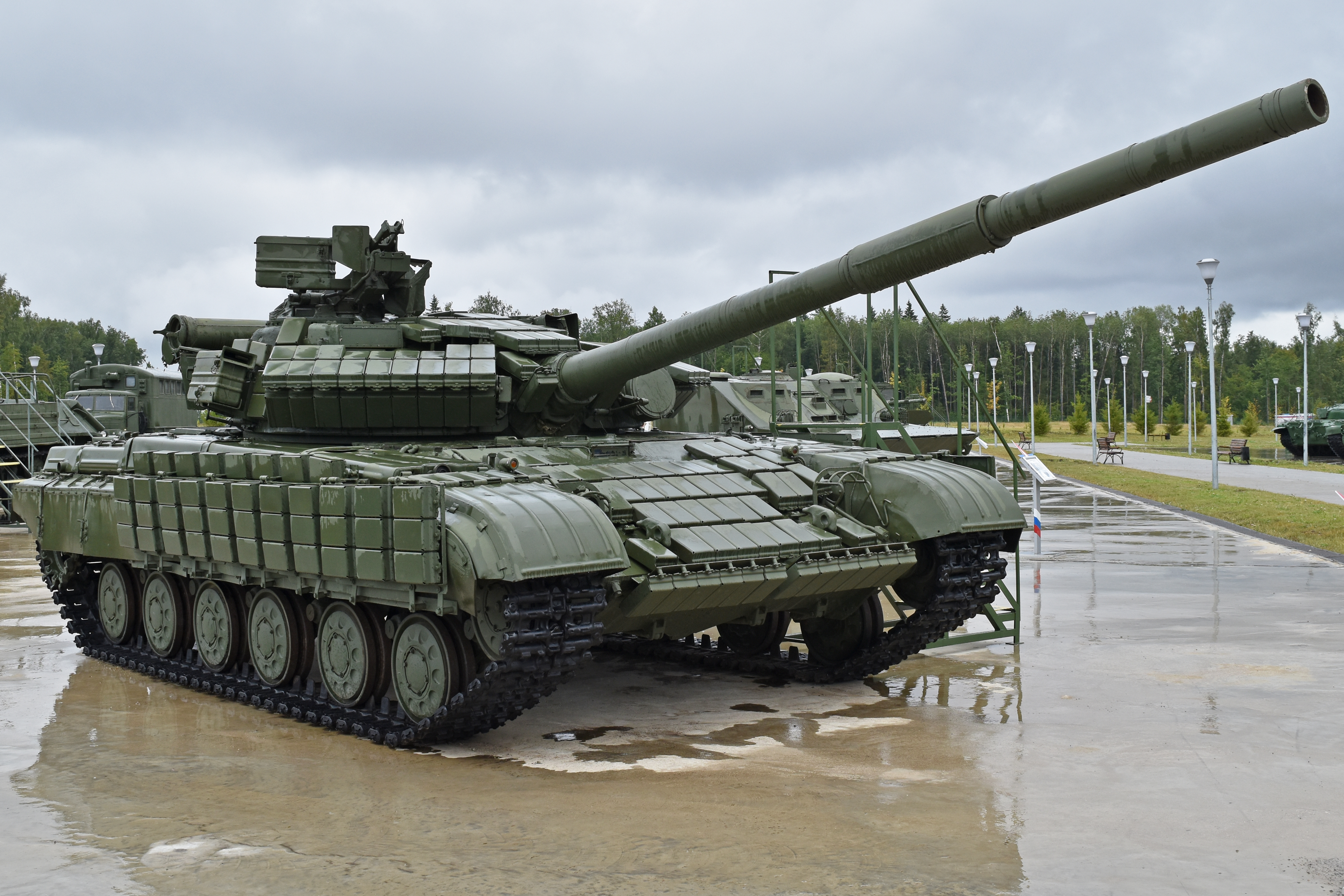 Soviet 2nd Generation Main Battle Tank Manufacturer: Malyshev Factory Built: 1963 to 1987 Total Production: 13,000+ Main Armament: 125mm 2A46-2 Smoothbore gun The T-64BV was a T-64 with ‘Kontact-1’ reactive armour and ‘Tucha’ smoke grenade launchers. On display in Area 1 of the Patriot Museum Complex. Park Patriot, Kubinka, Moscow Oblast, Russia. 25th August 2017